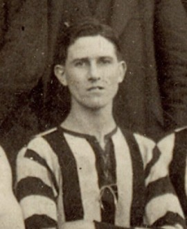 Photograph of Charlie Lee from 1916-1917